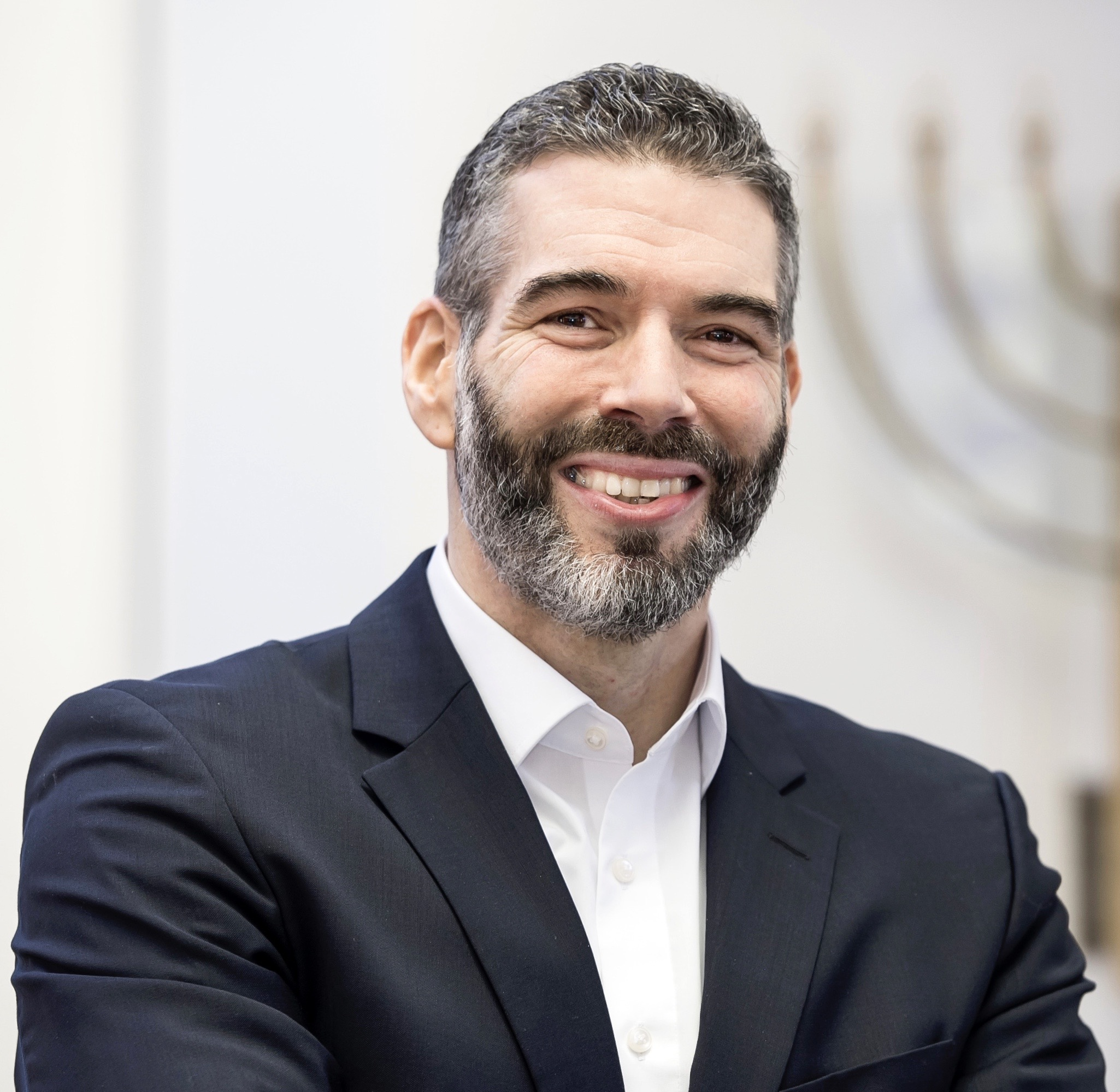 Daniel Neumann - Pressphoto